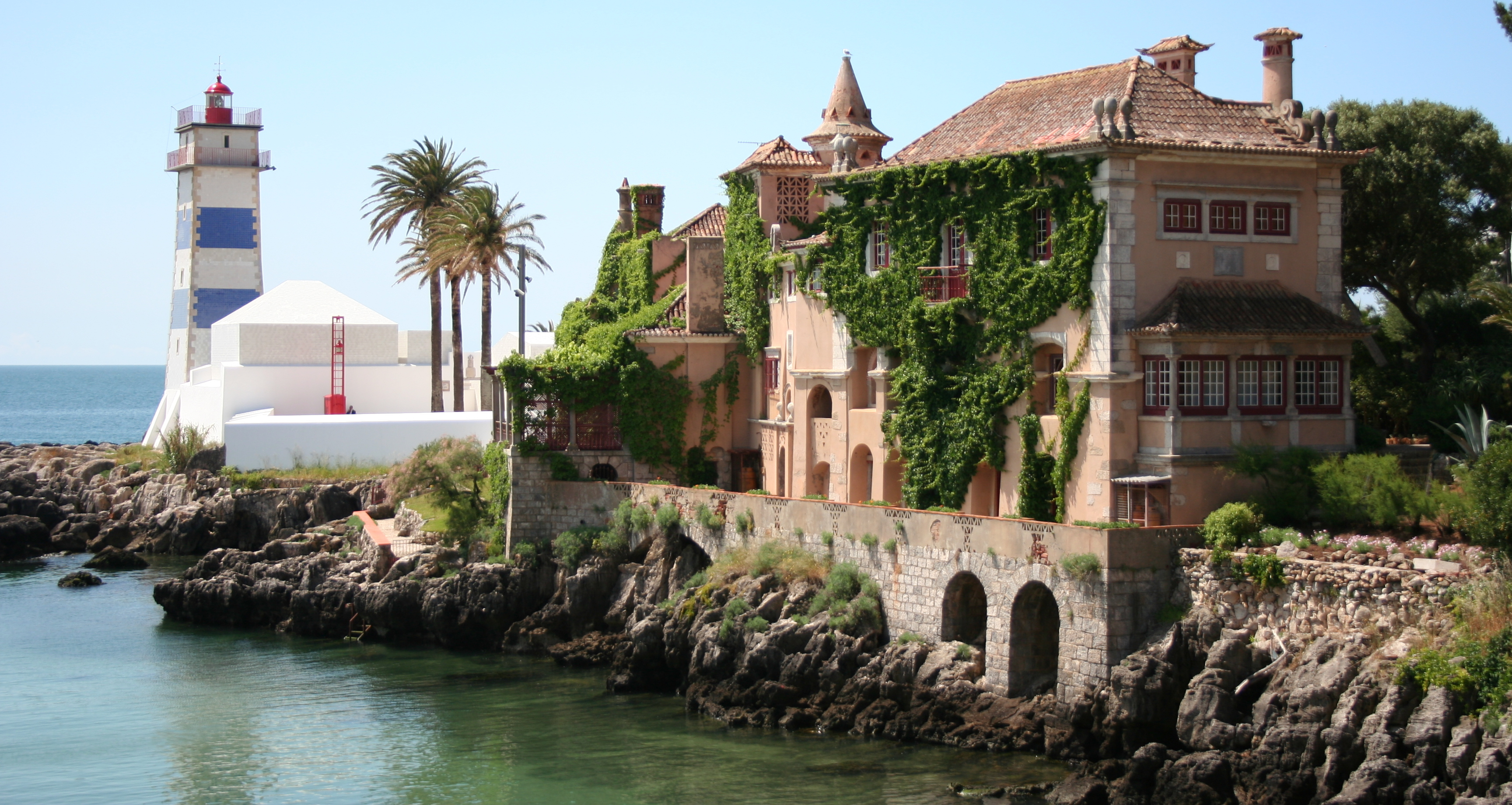 Santa Maria House and Lighthouse in Cascais, Portugal